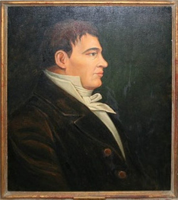 Pre-1826 painting of Simon Fraser by unknown artist in Bennington Museum, Vermont